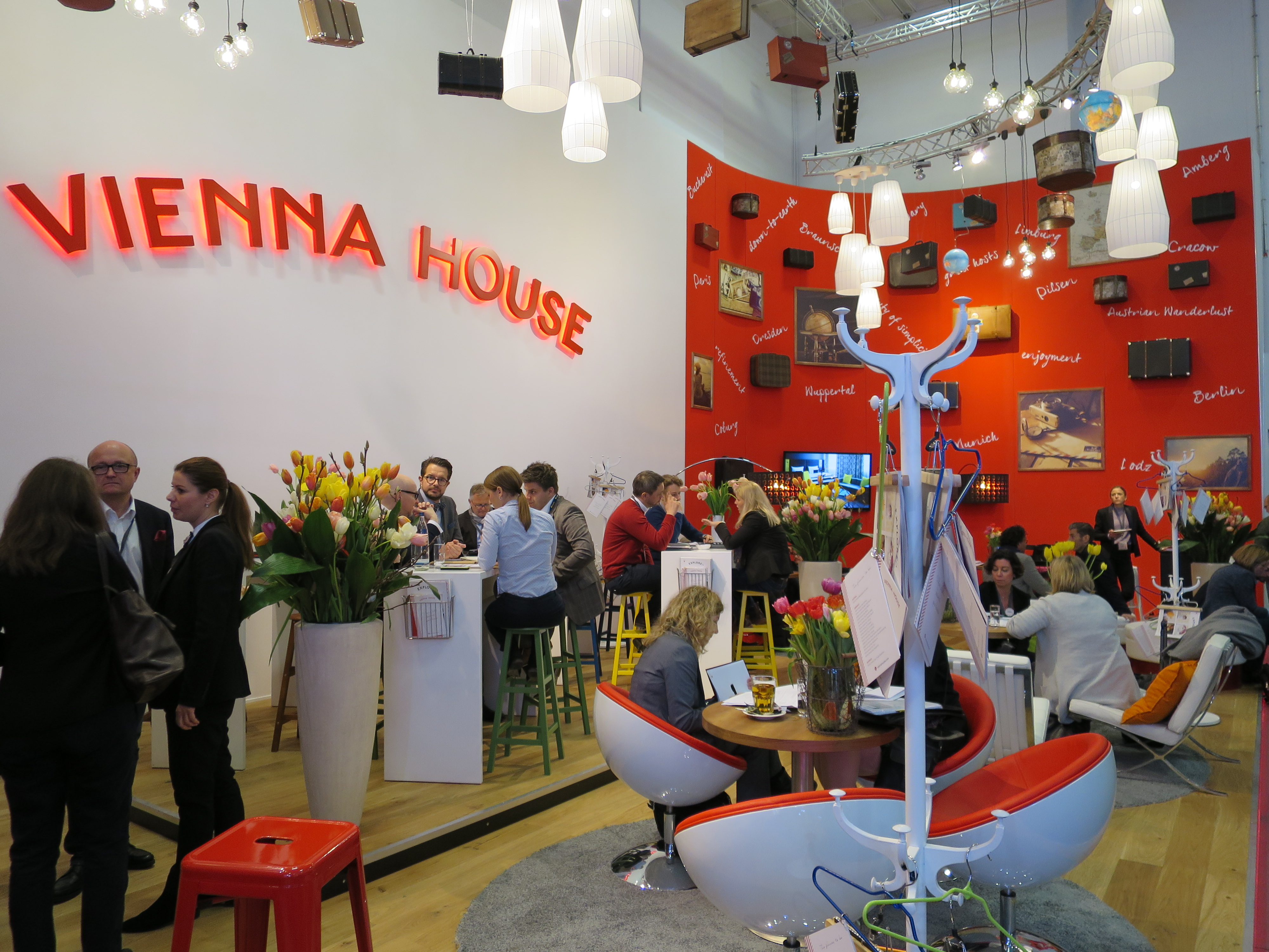 Vienna House.